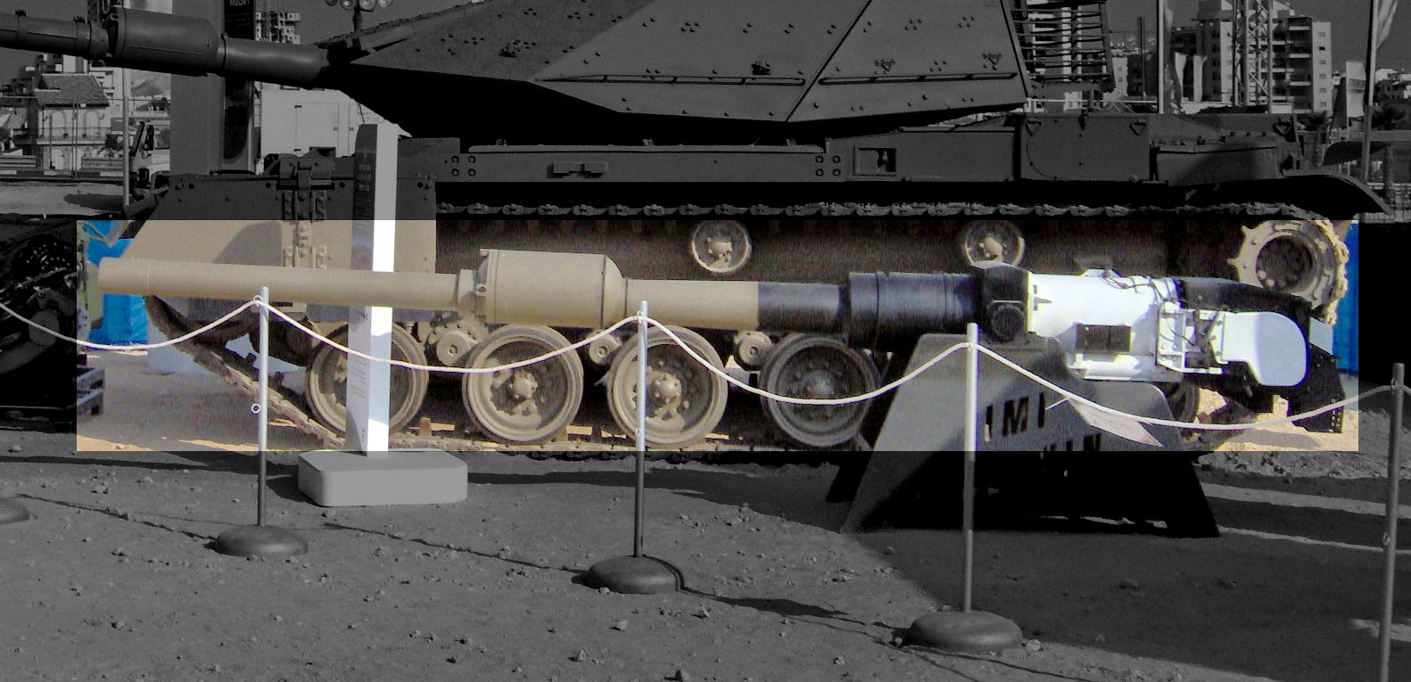 120 mm MG253 smoothbore gun of Merkava Mk4